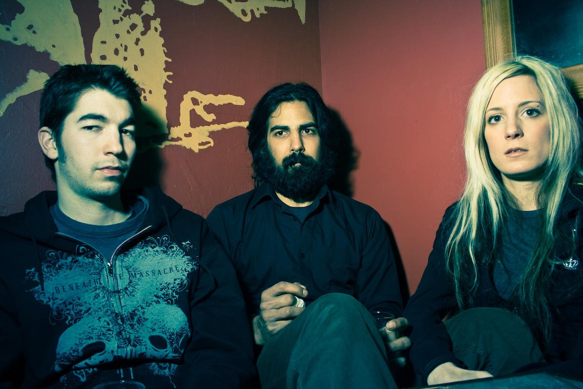 A photo of Fuck the Facts ca. 2008. It is taken from the band's website where it is used under their media section, and is available there for free download. E-mail forwarded to OTRS.